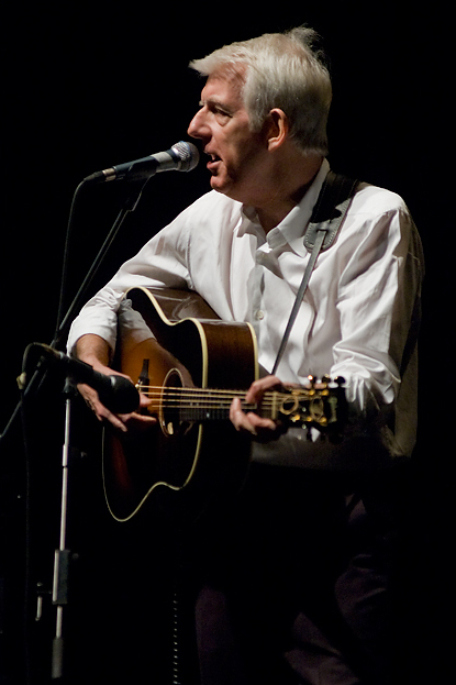 Crónica del bolo aquí